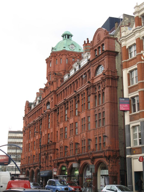 Leysian Mission building, City Road, EC1. Shows the location of 1087946 and 1087952; and - just - 1096702.